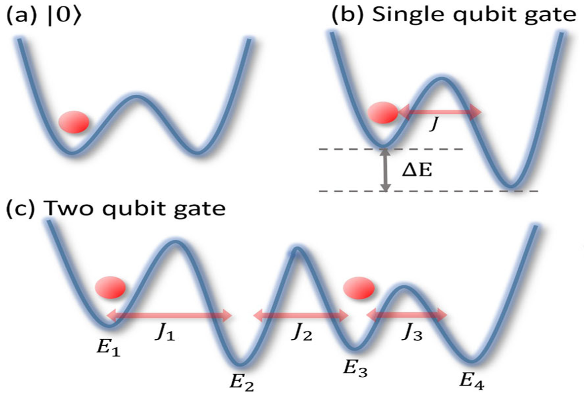 Quantum logic gates based on quantum walks for cold atoms. Implementation of a single-qubit gate and a two-qubit gate